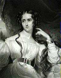 Caroline Susan Goold, Lady Gore Booth, 2nd wife of Sir Robert Gore-Booth, 4th Baronet] of Artarman, Sligo (August 25, 1805 – December 21, 1876), was member of Parliament for County Sligo 1850-1876, and a landowner who built Lissadell House, Sligo, Ireland.